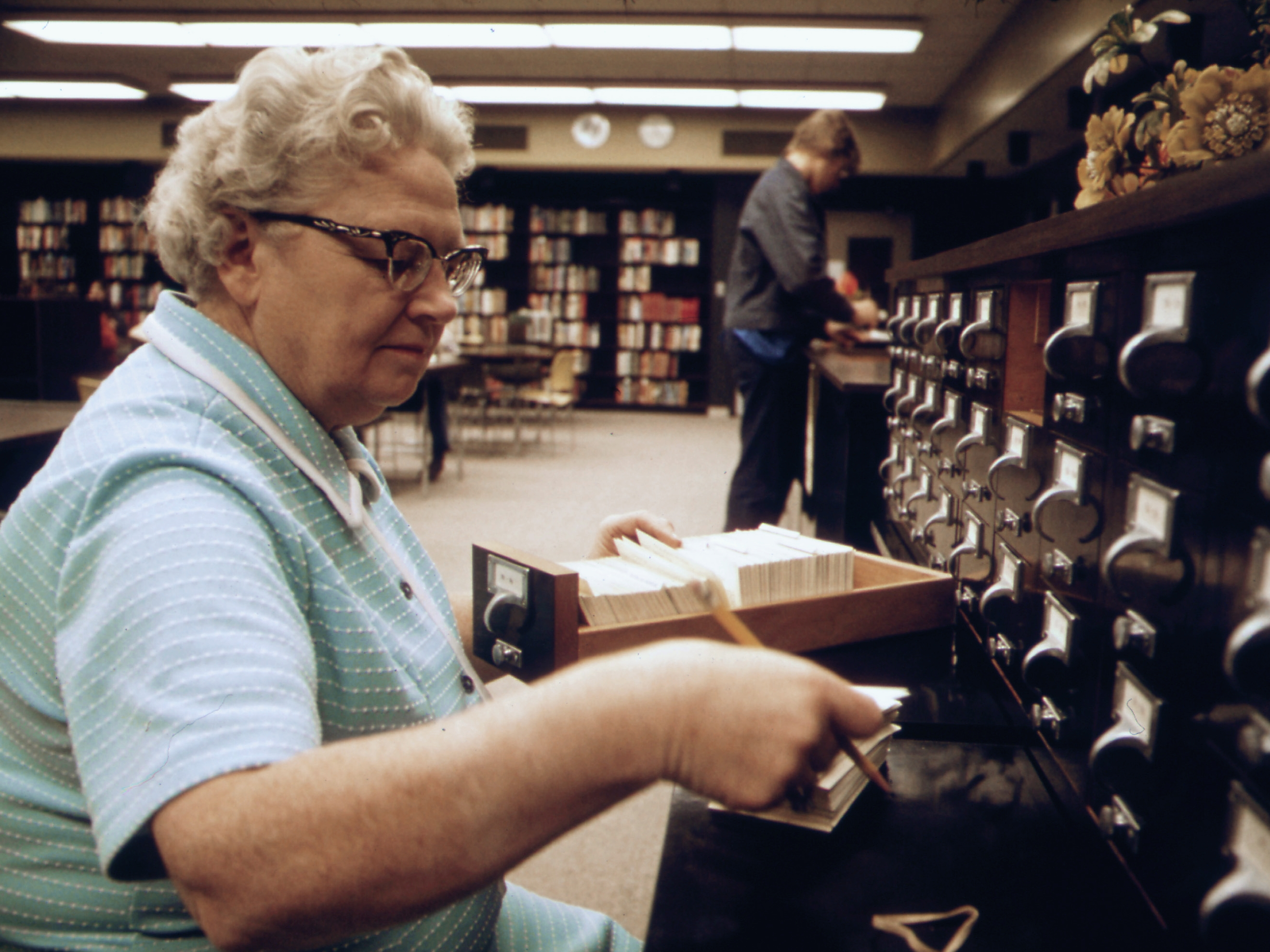 Librarian at the card files at a senior high school in New Ulm, Minnesota.